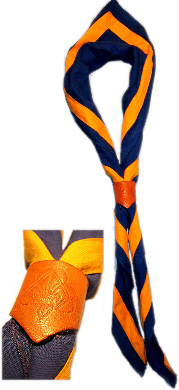 A Neckerchief of a Scout of the German "Bund der Pfadfinderinnen und Pfadfinder". Magnified: the woggle